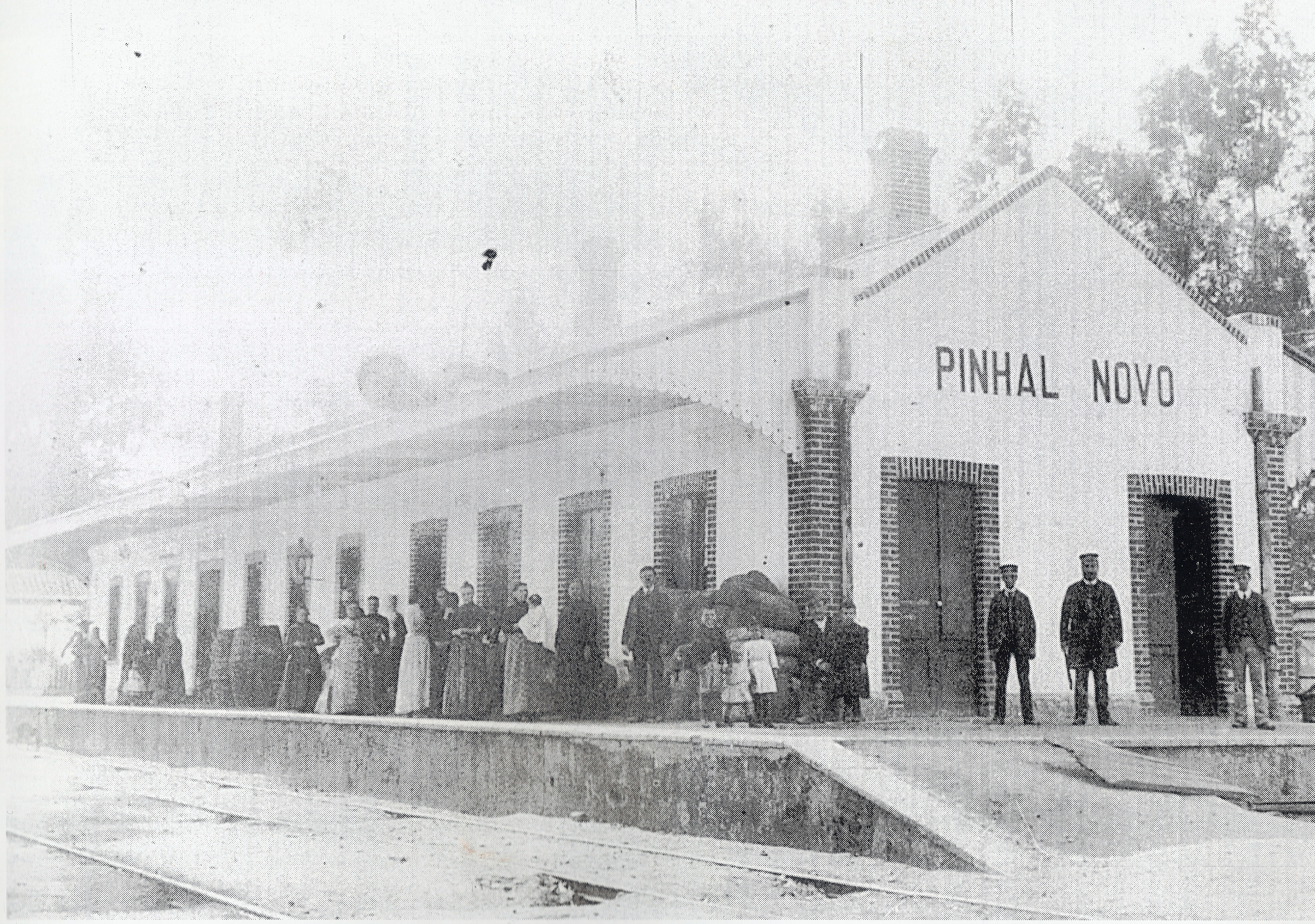 Main building of the first Pinhal Novo Railway Station, in Portugal, that was demolished and replaced by a new building in 1933-1934. This fotograph was taken in the final years of the XIX Century.